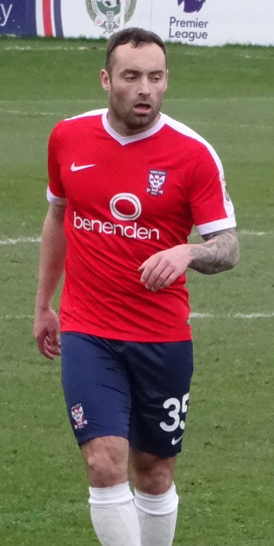 Danny Holmes playing for York City against Brackley Town at Bootham Crescent, York on 25 February 2017